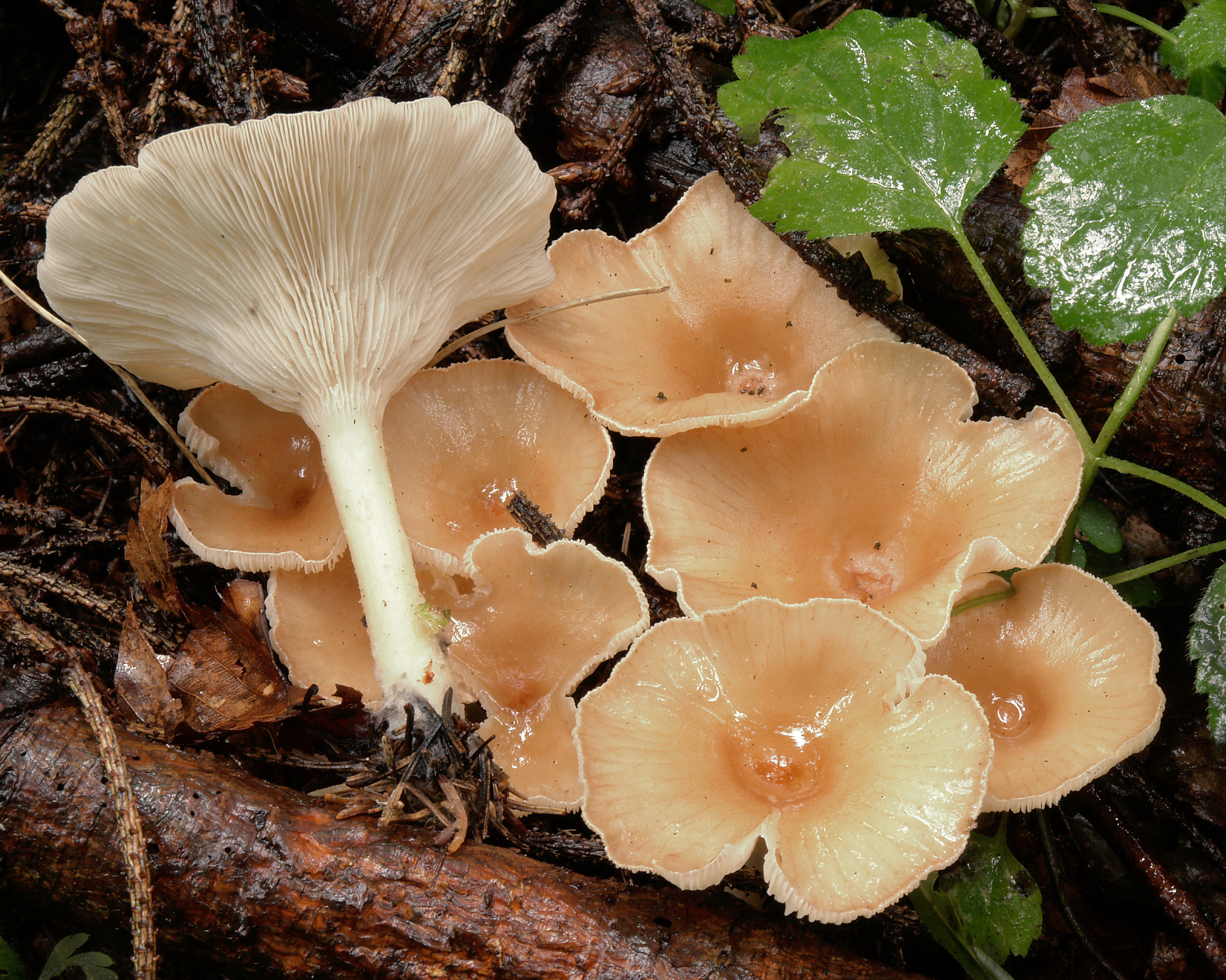 Common Funnel (Infundibulicybe gibba)